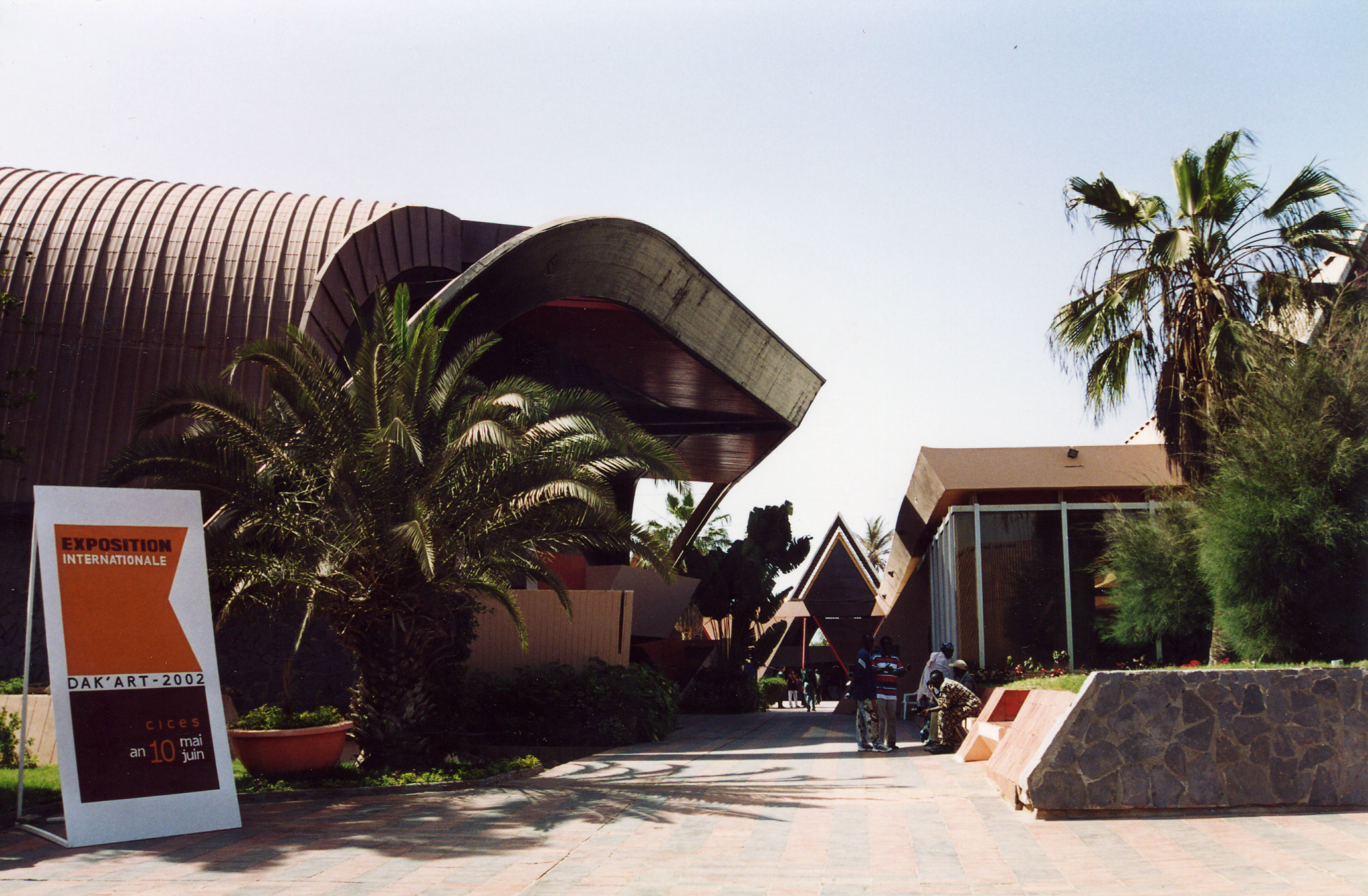 Dakar Biennale 2002. Photo Iolanda Pensa.